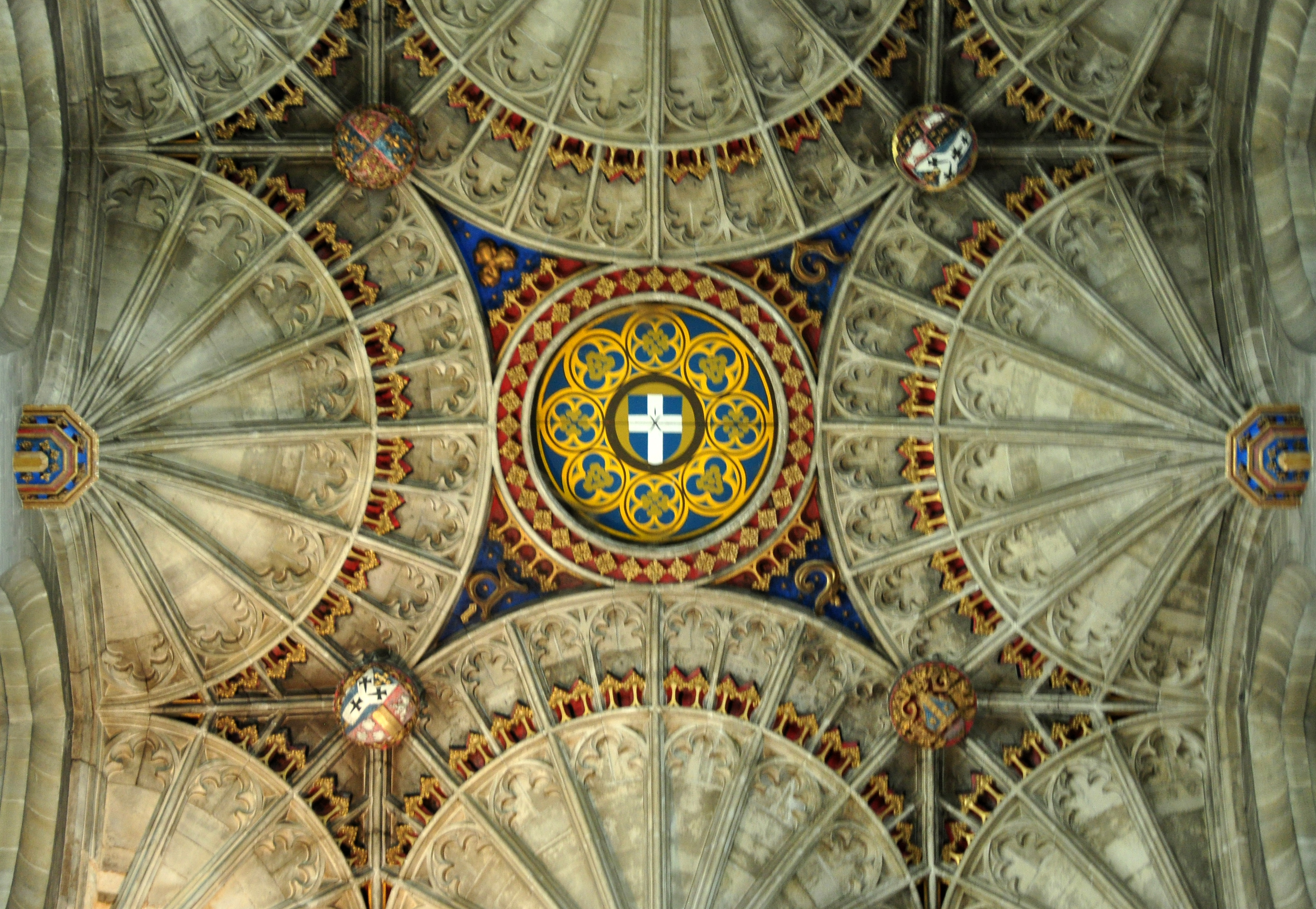 Carvings on the ceiling inside the tower of Canterbury Cathedral.